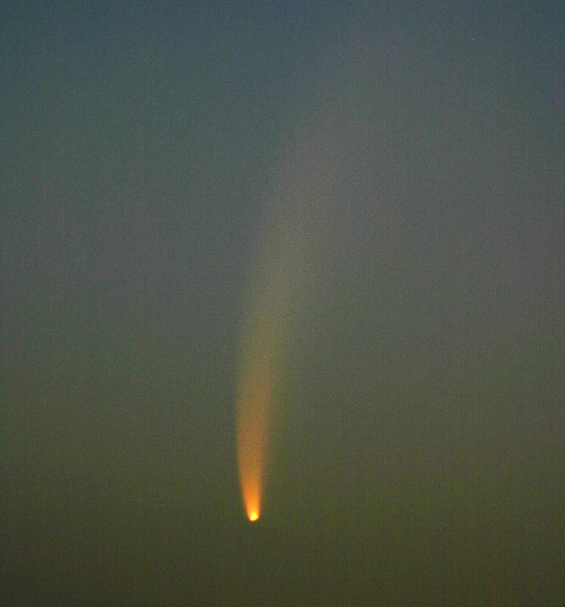 Comet McNaught shot from Levin, New Zealand, January 18 2007